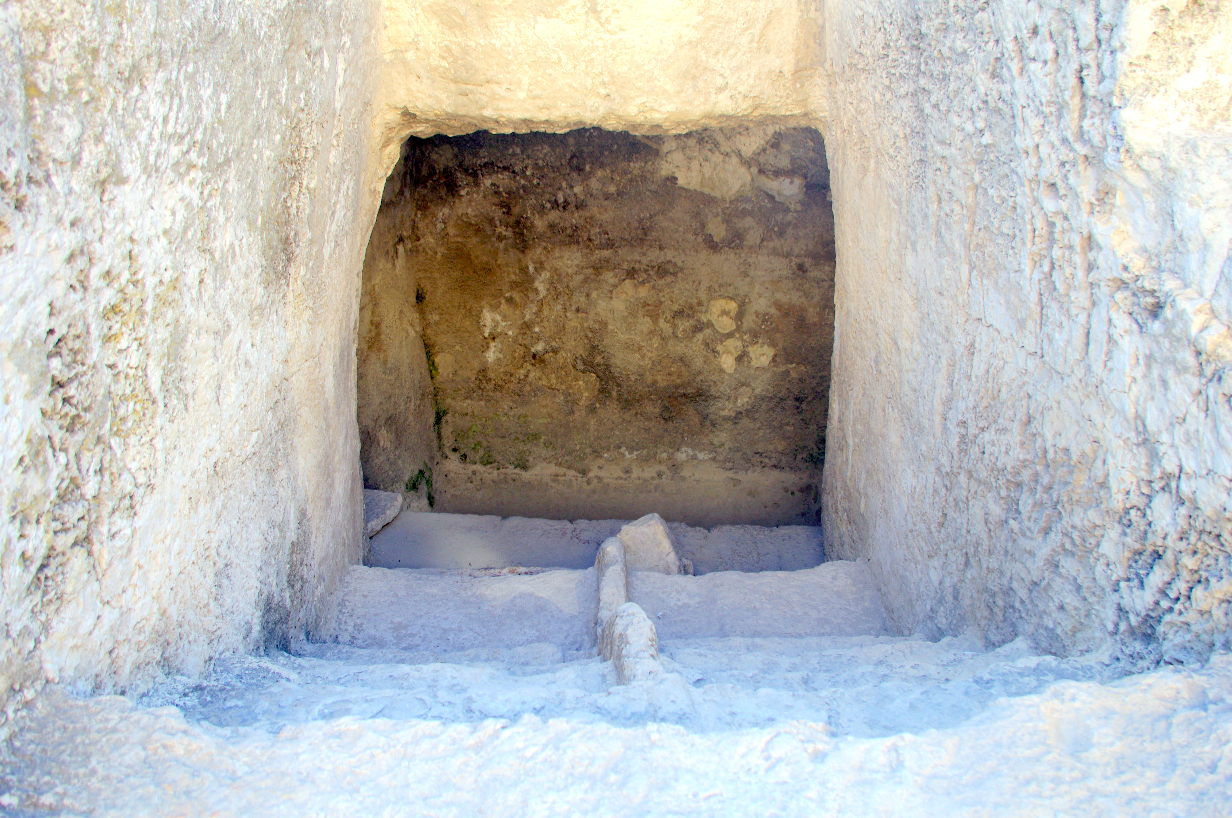 Temple Mount, Jerusalem (ancient place for holy washing before prays)